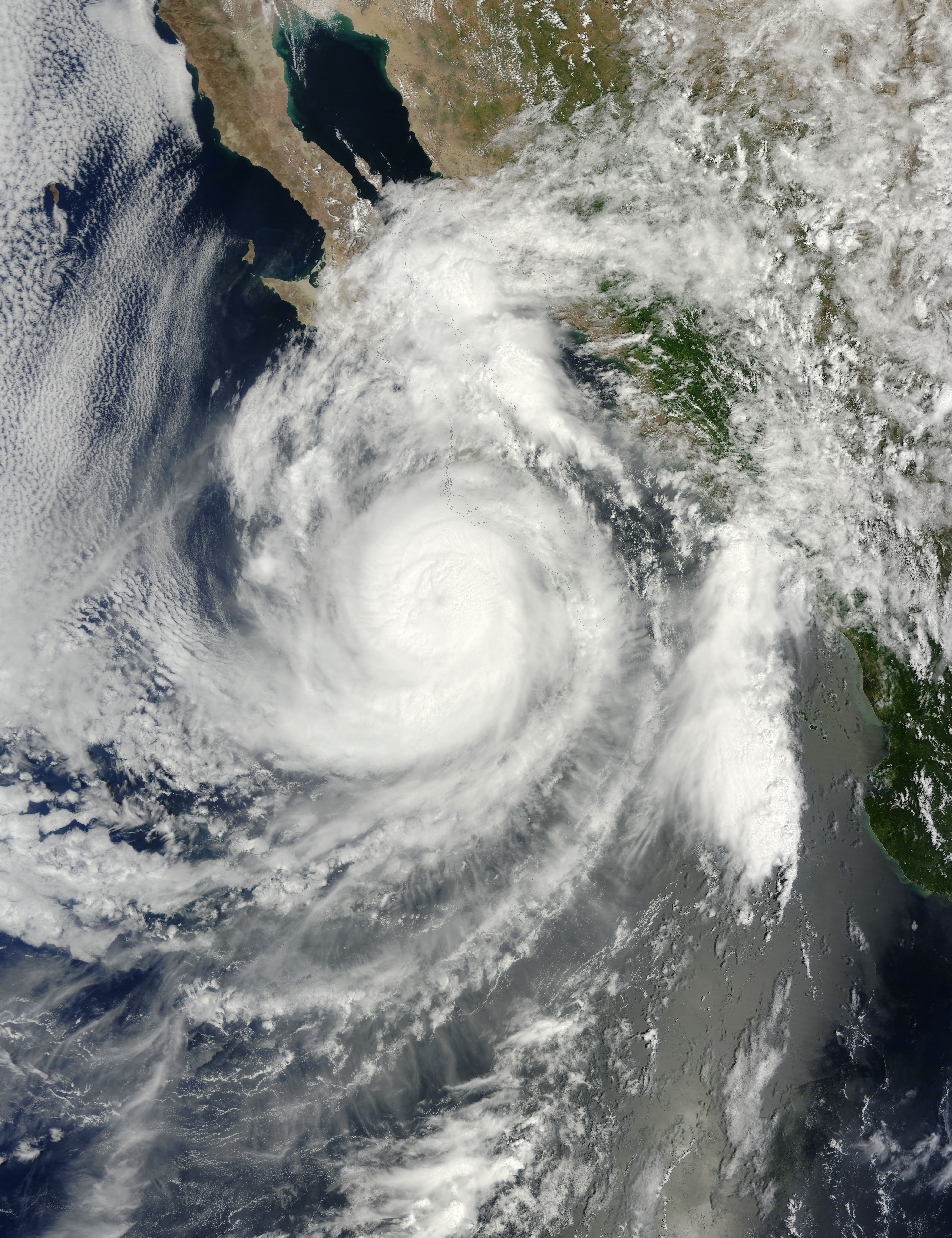 Hurricane Norbert (14E) over Baja California